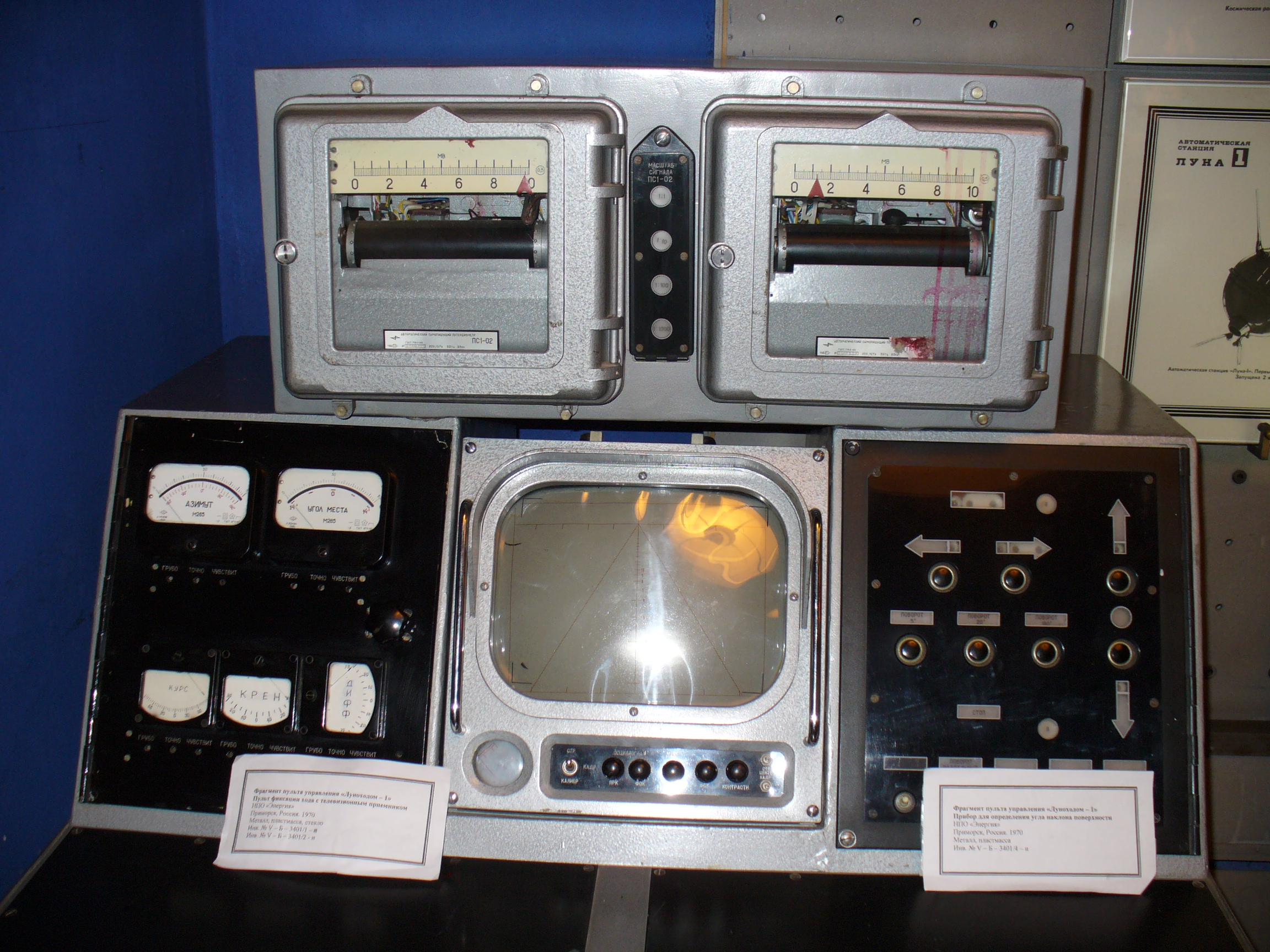 Control panel of Lunokhod 1